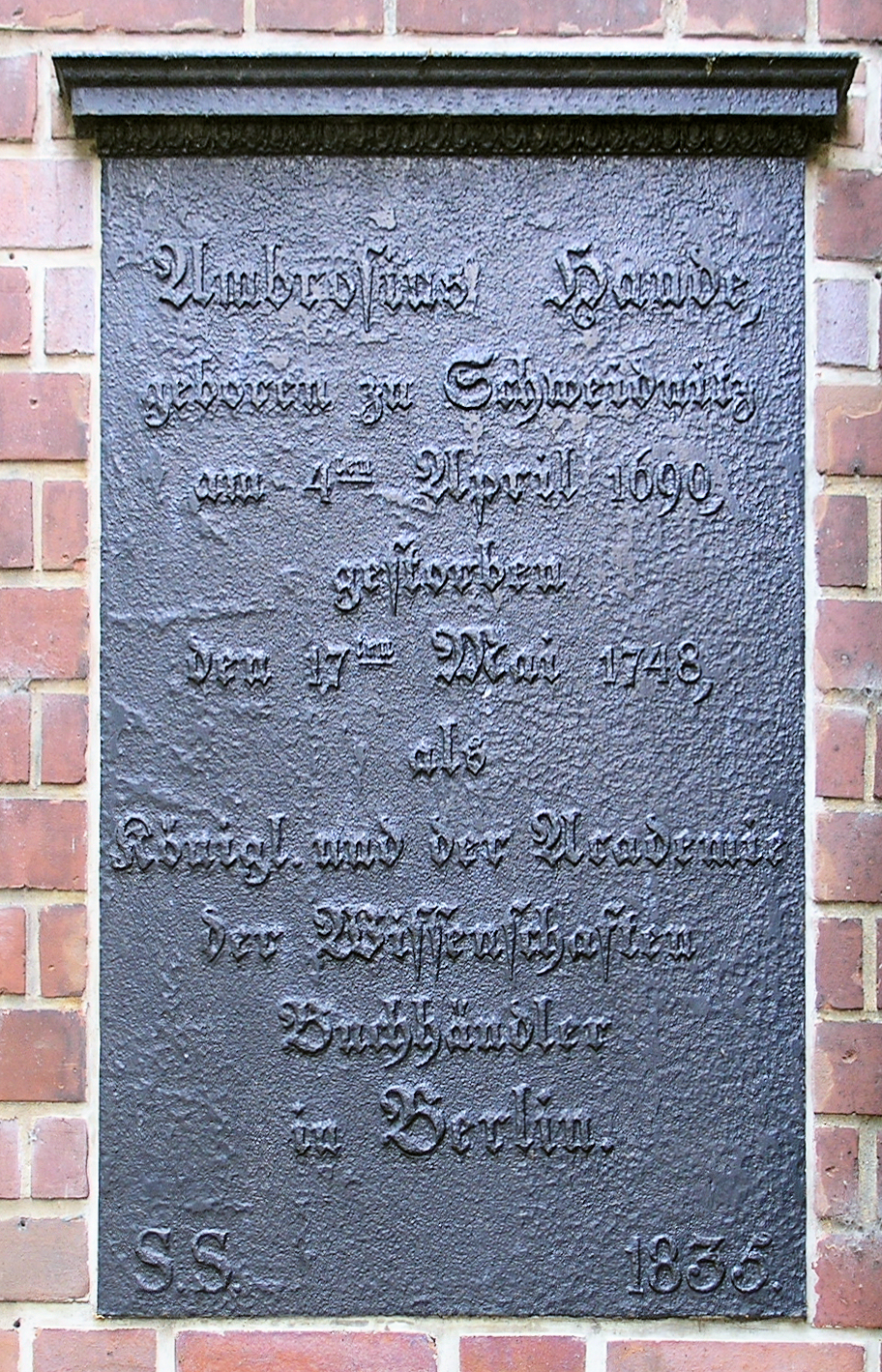 Memorial plaque, Ambrosius Haude, Nikolaikirchplatz , Berlin-Mitte, Germany